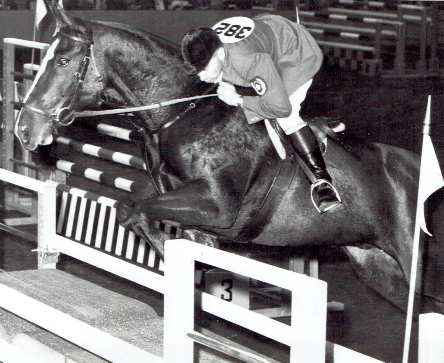 1964 UPI Wire Photo equestrian Thomas Gayford National Horse Show New York City